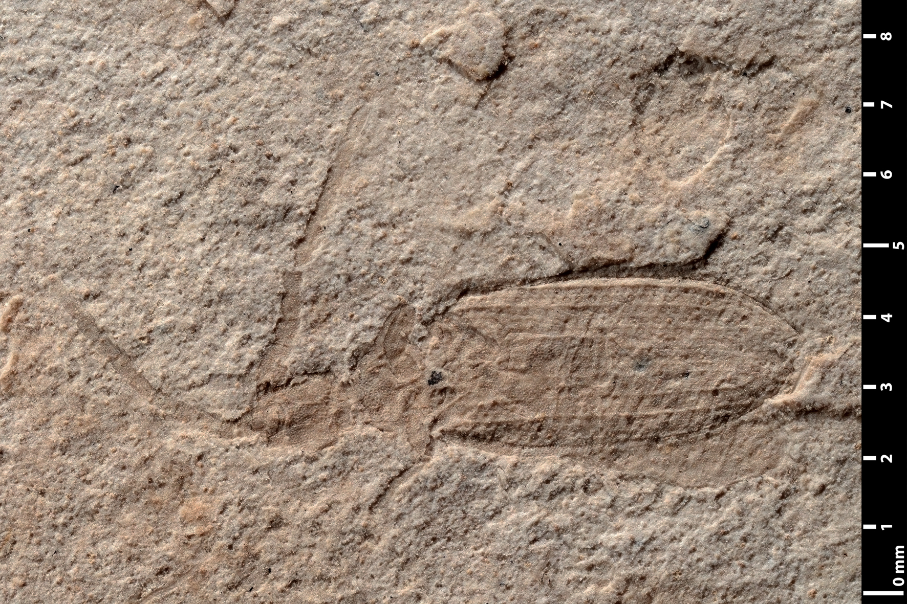 The Cupes distinctissimus holotype part specimen with direct lighting. Thanetian, Paleocene; Menat Formation, Menat Basin, Puy-de-Dôme, France Muséum national d'Histoire naturelle specimen MNHN.F.A51118